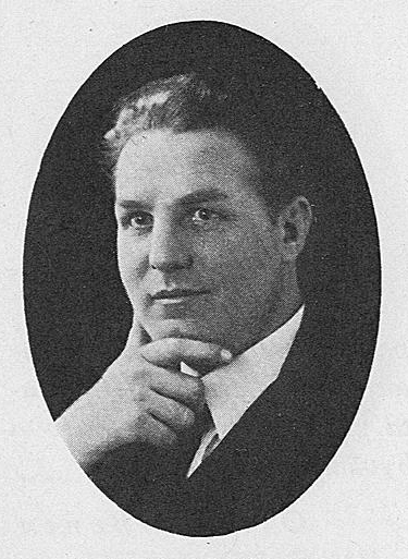 Finnish theatre personality, photographed in early 1930s.